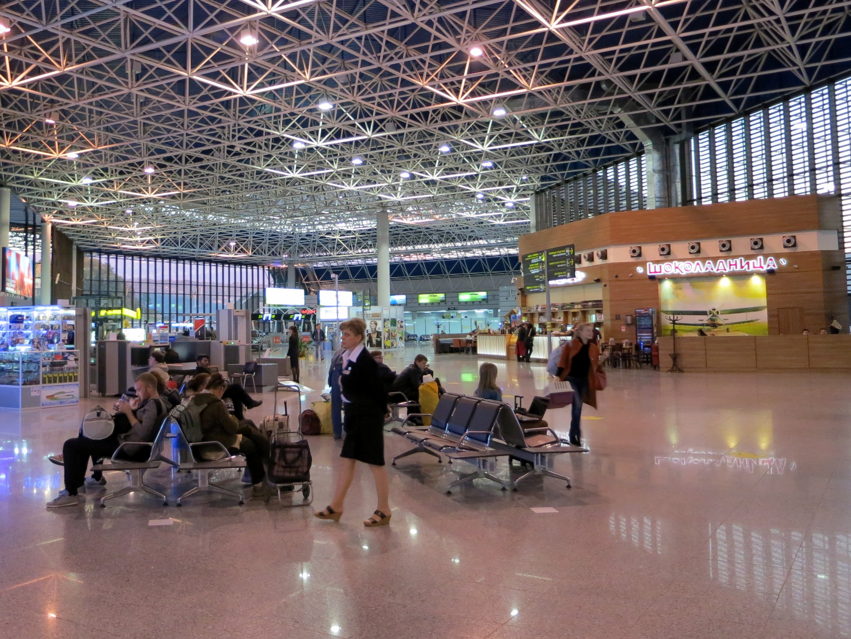 Interior of Sochi International Airport in Russia.